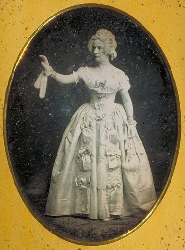 Daguerreotype of English-born actress and manager Catharine Norton Sinclair (1817-1891), wife of American actor Edwin Forrest. TC-48, Harvard Theatre Collection, Harvard University